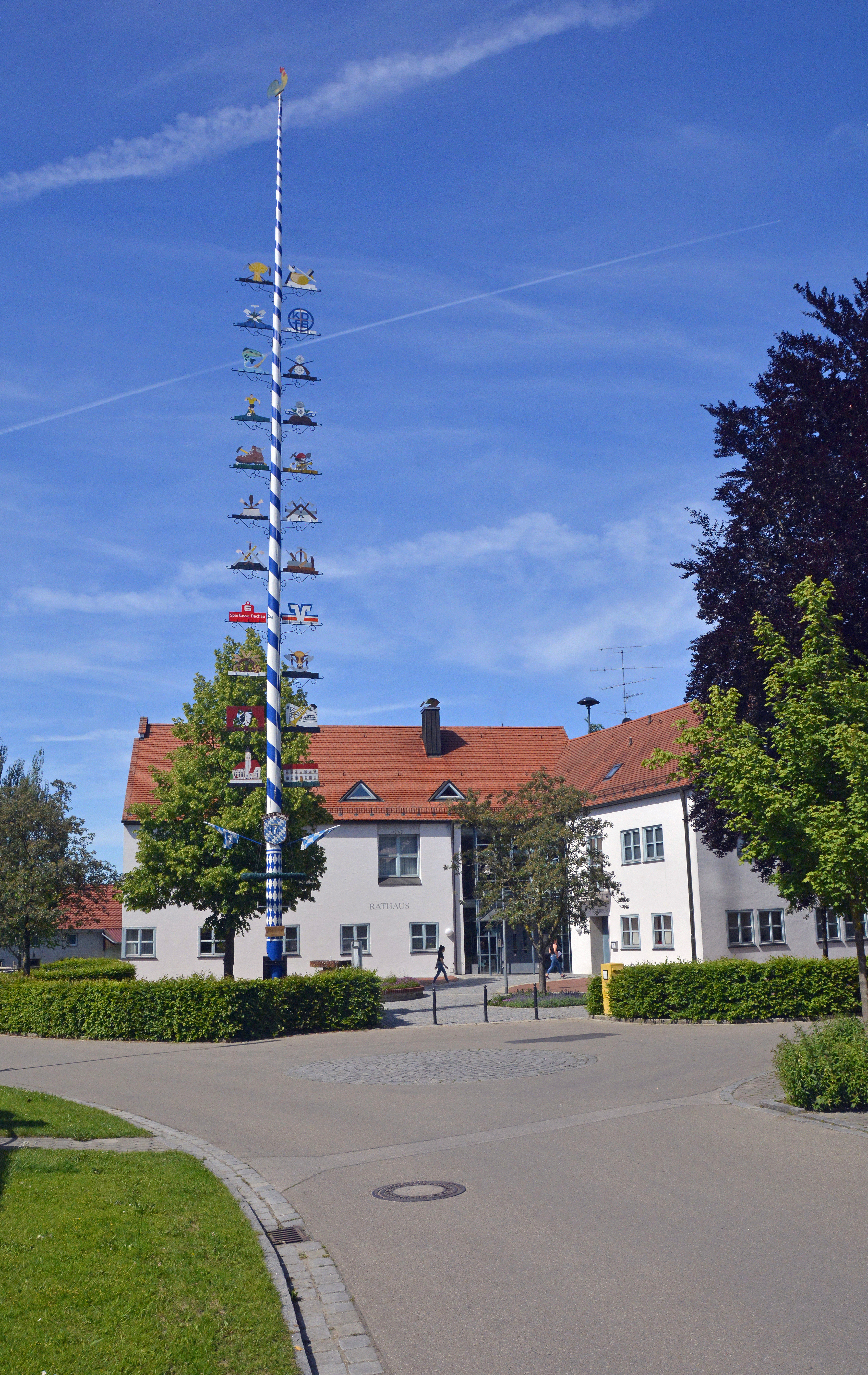 Town Hall Vierkirchen with maypole